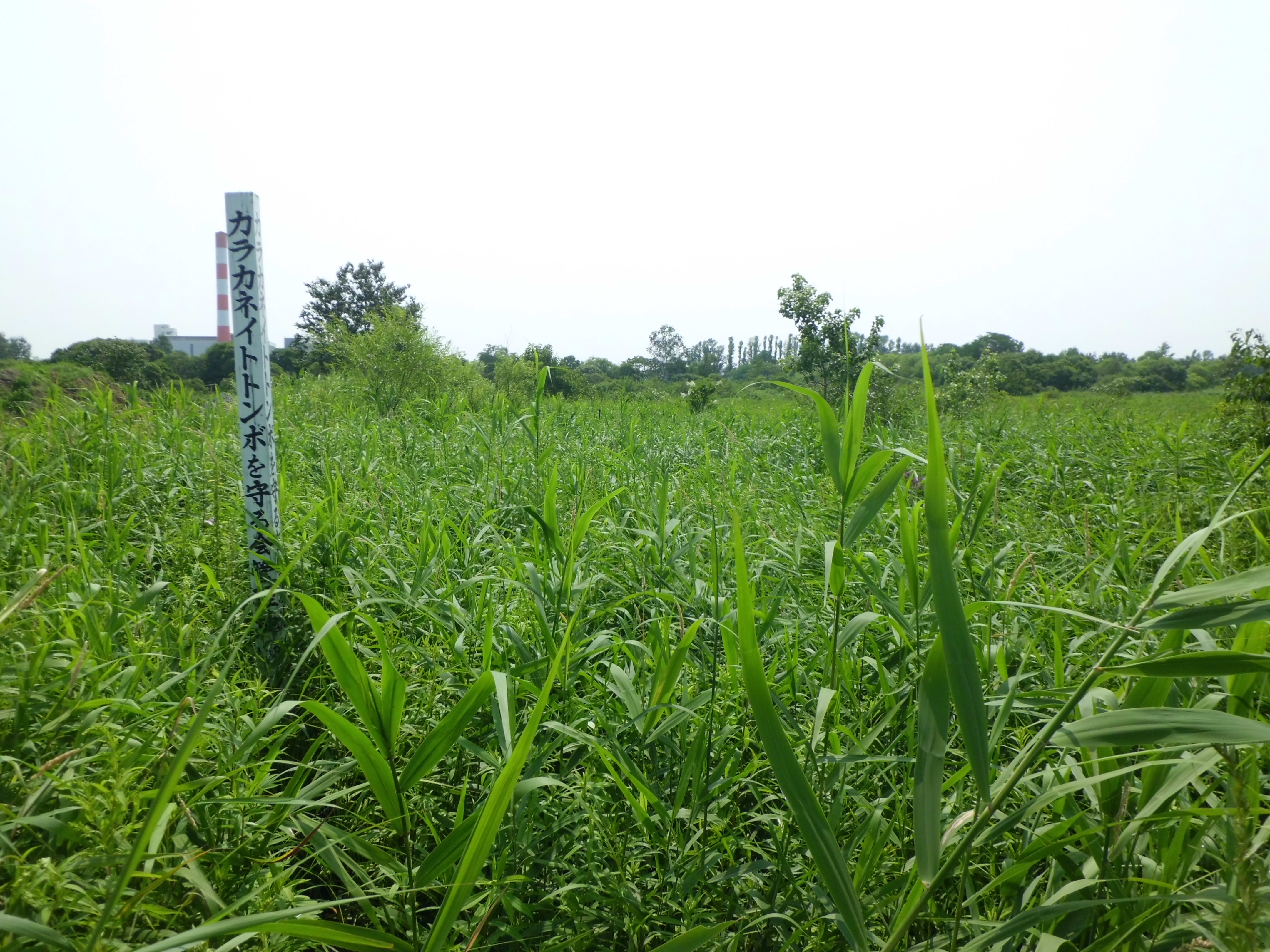 Pole of Shinoro Fukui Wetland